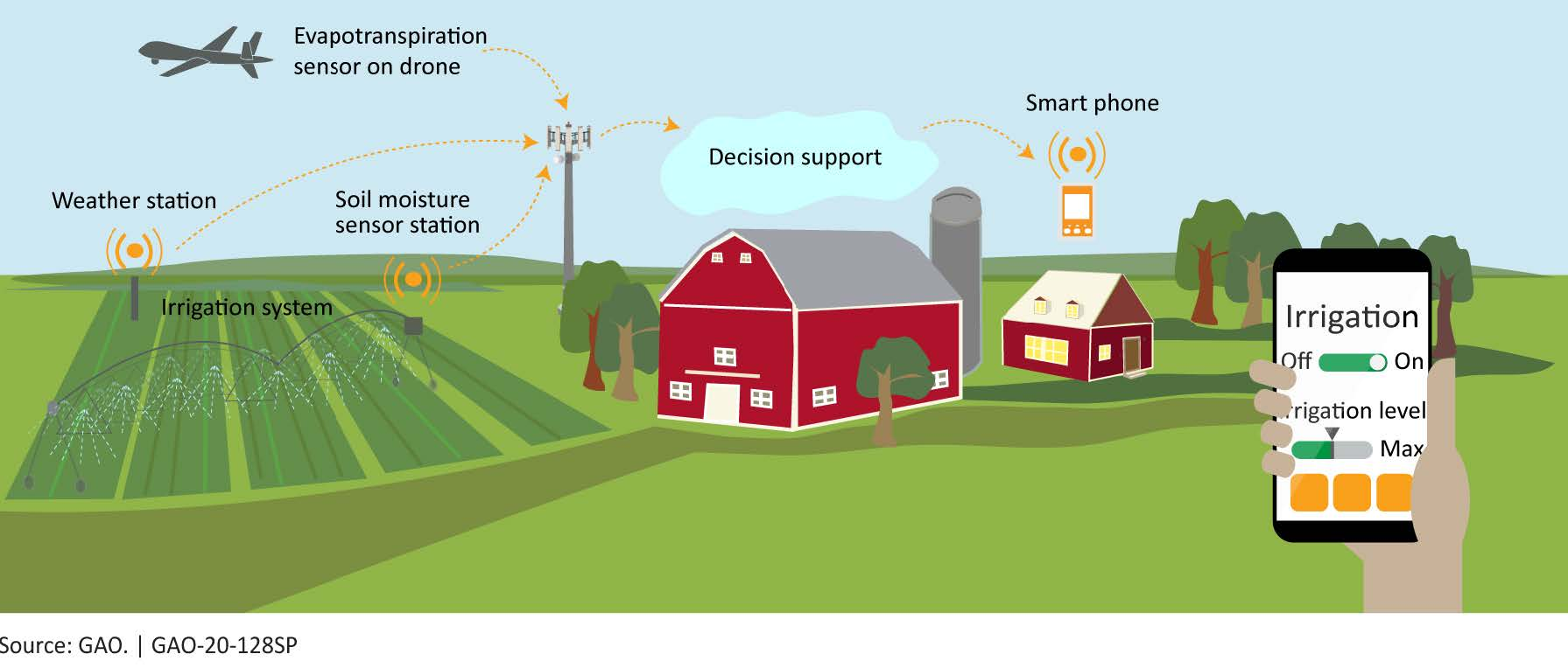 This image is excerpted from a U.S. GAO report: Irrigated Agriculture: Technologies, Practices, and Implications for Water Scarcity Weather, soil moisture, and evapotranspiration data are collected and sent remotely to a decision support system, which then provides actionable information to the farmer.